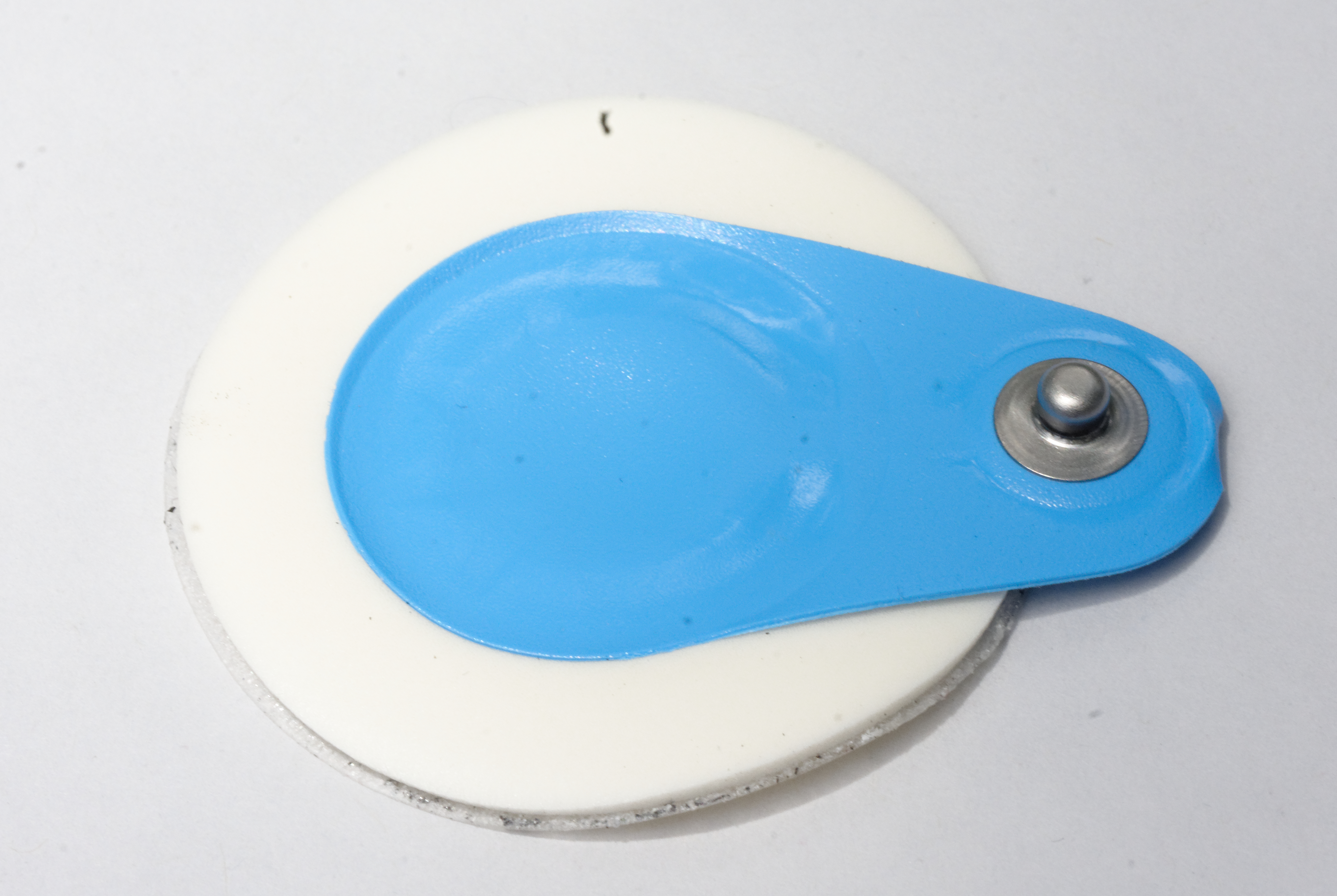 A sensor for an EKG